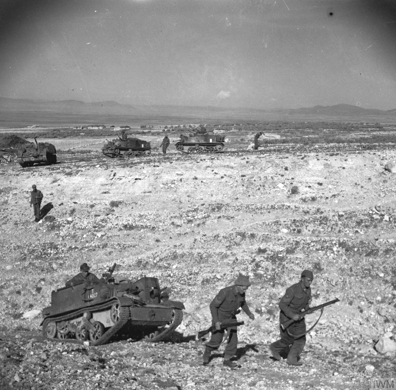 The British Army in Tunisia 1943 Infantry and carriers of the Grenadier Guards advance over difficult terrain near the Kasserine Pass, 24 February 1943.